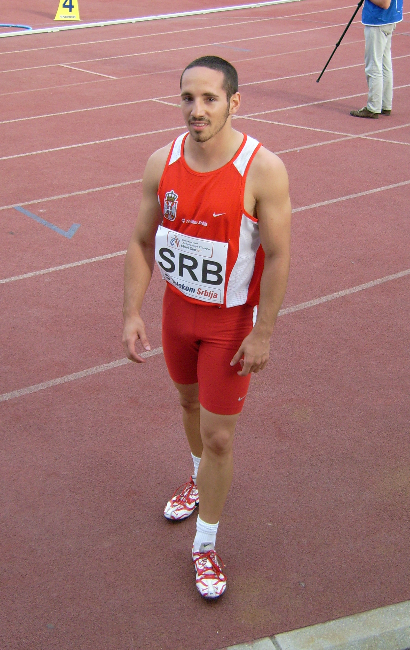 Darko Sarovic at the European Team Championships 2nd League in Novi Sad 2011